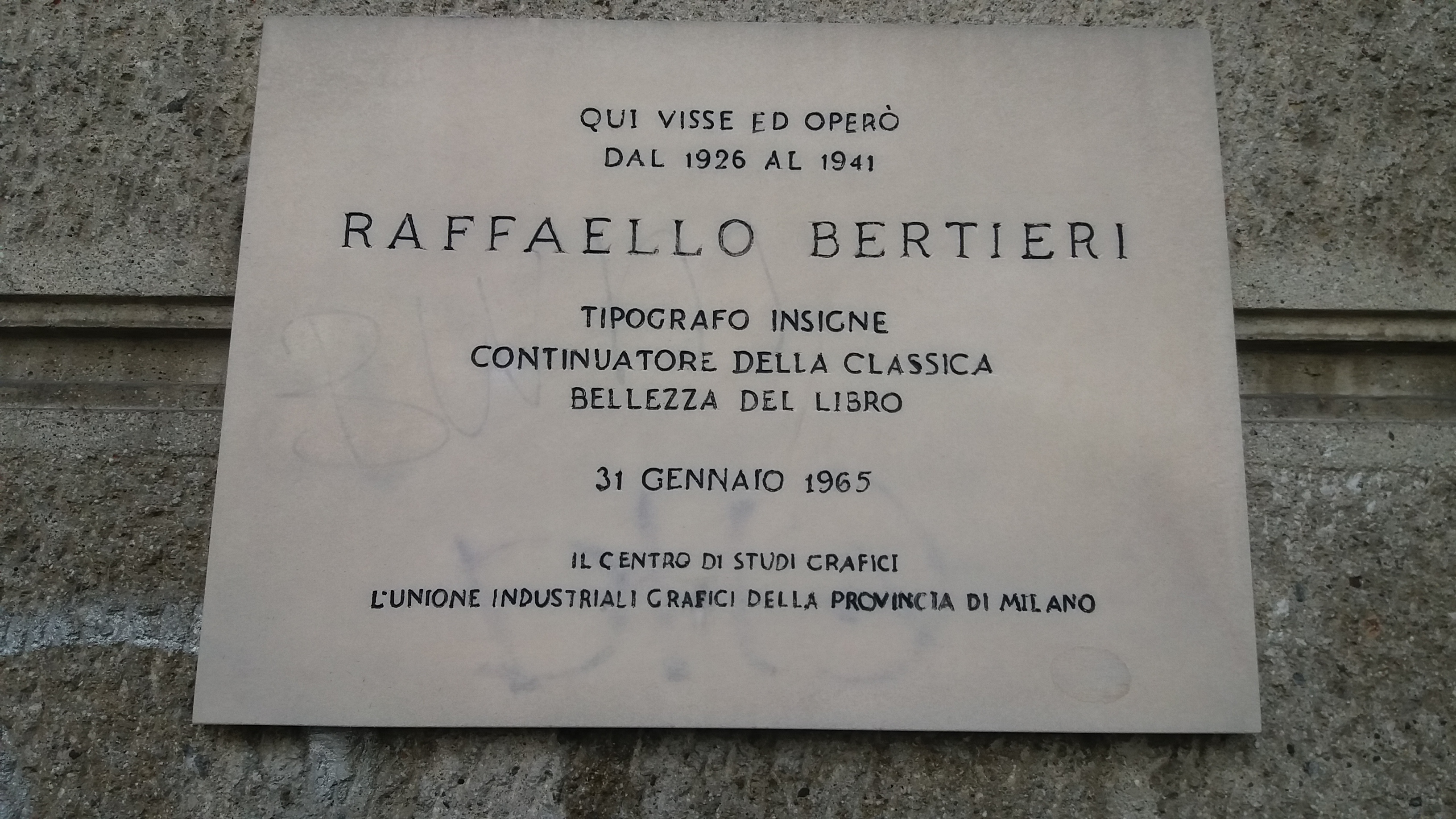 Plate in memory of Raffaello Bertieri in via Magiagalli 18 in Milan, Italy